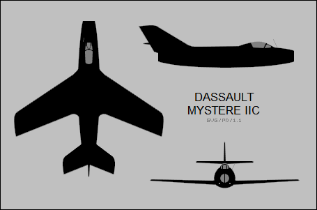 3-view silhouettes of the Dassault Mystere IIC